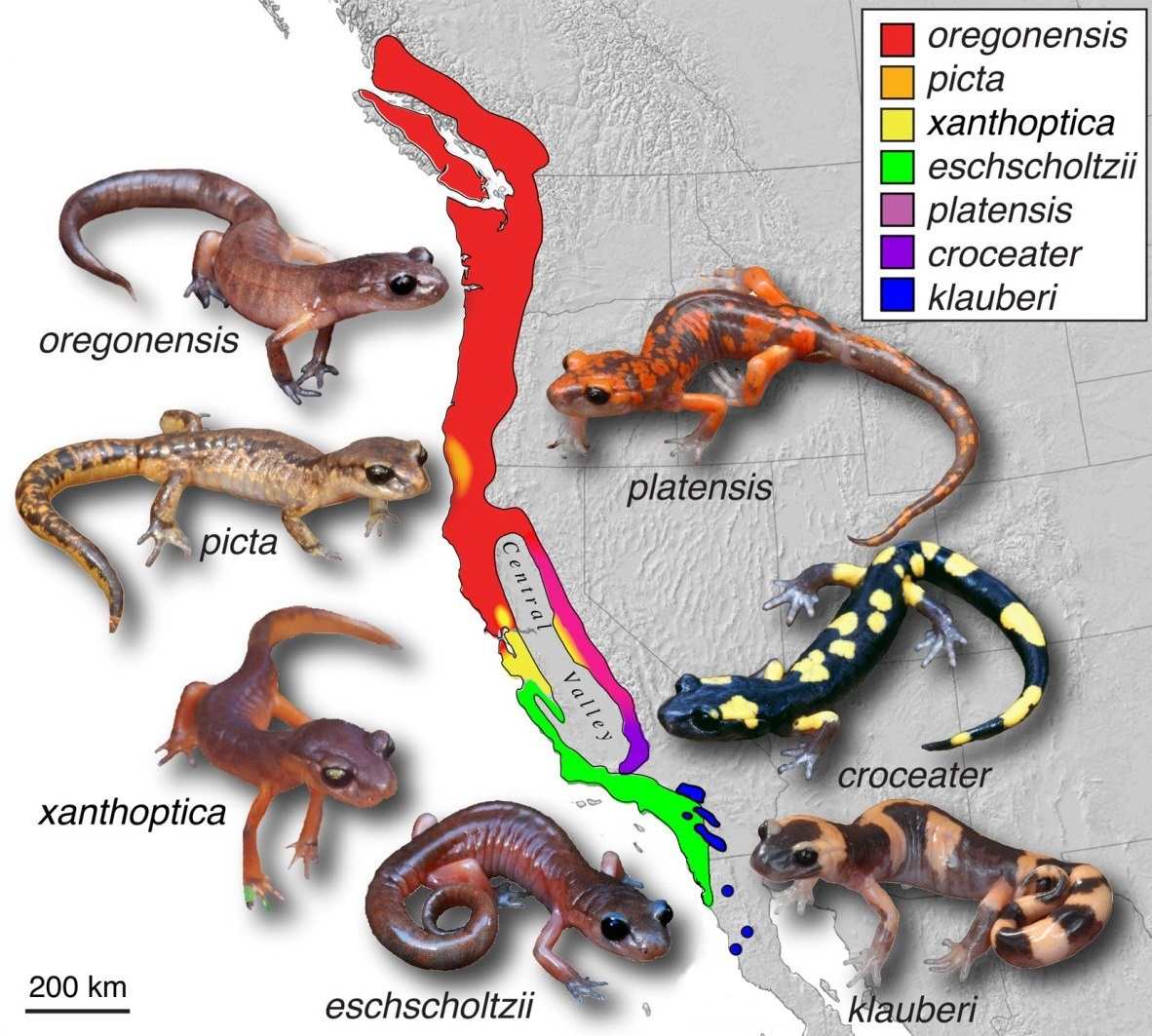 Range of the Ensatina eschscholtzii complex in Western North America. Names refer to subspecies.